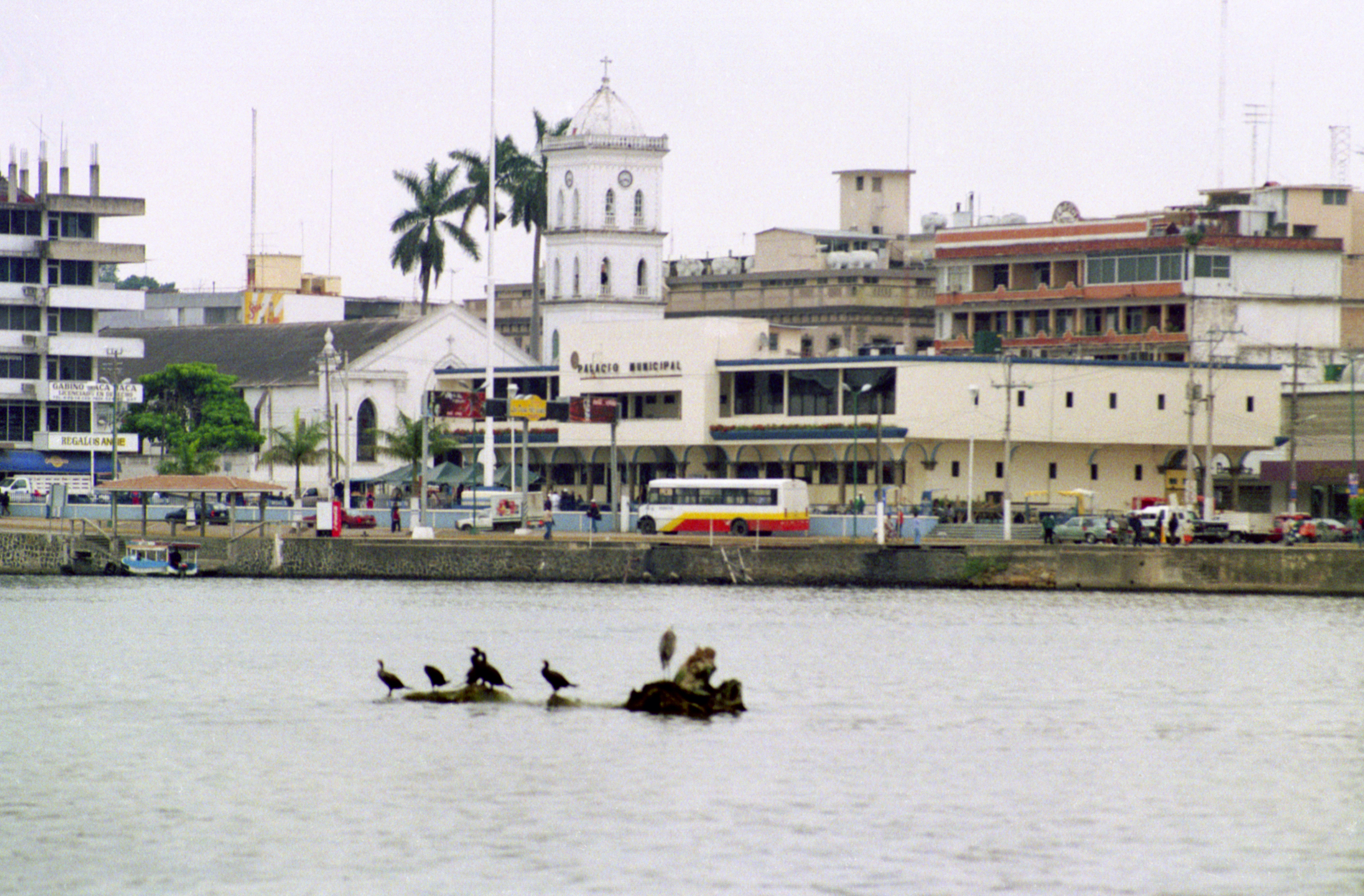 Tuxpan from the river, Veracruz state, Mexico